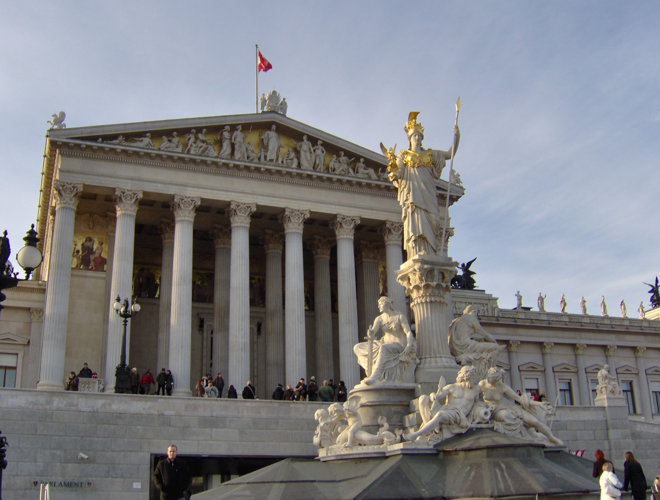 Austrian Parliament Building, Pallas Athena